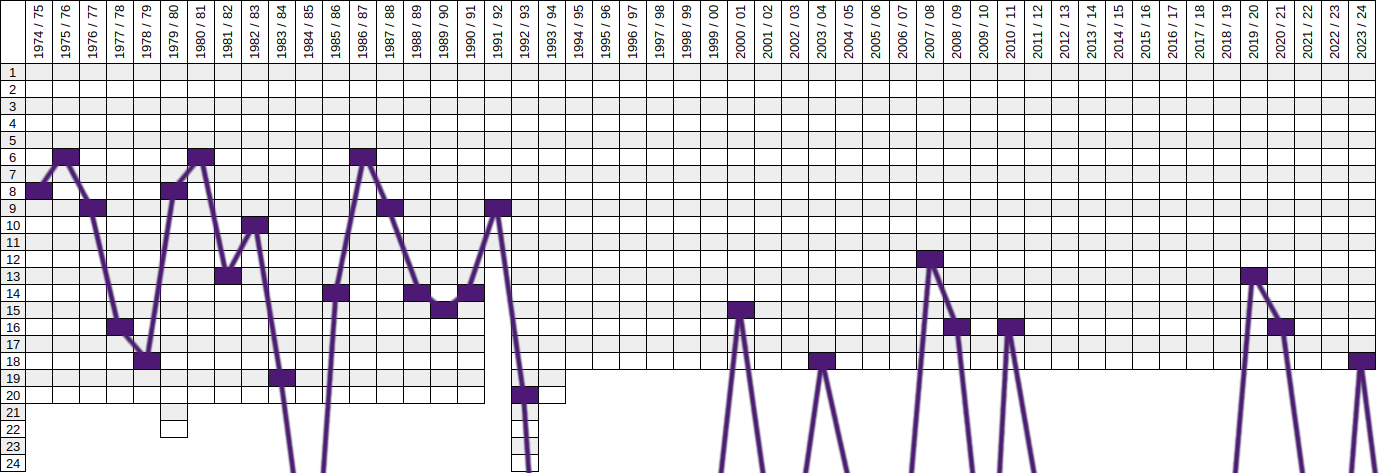 VfL Osnabrück Chart Second Bundesliga